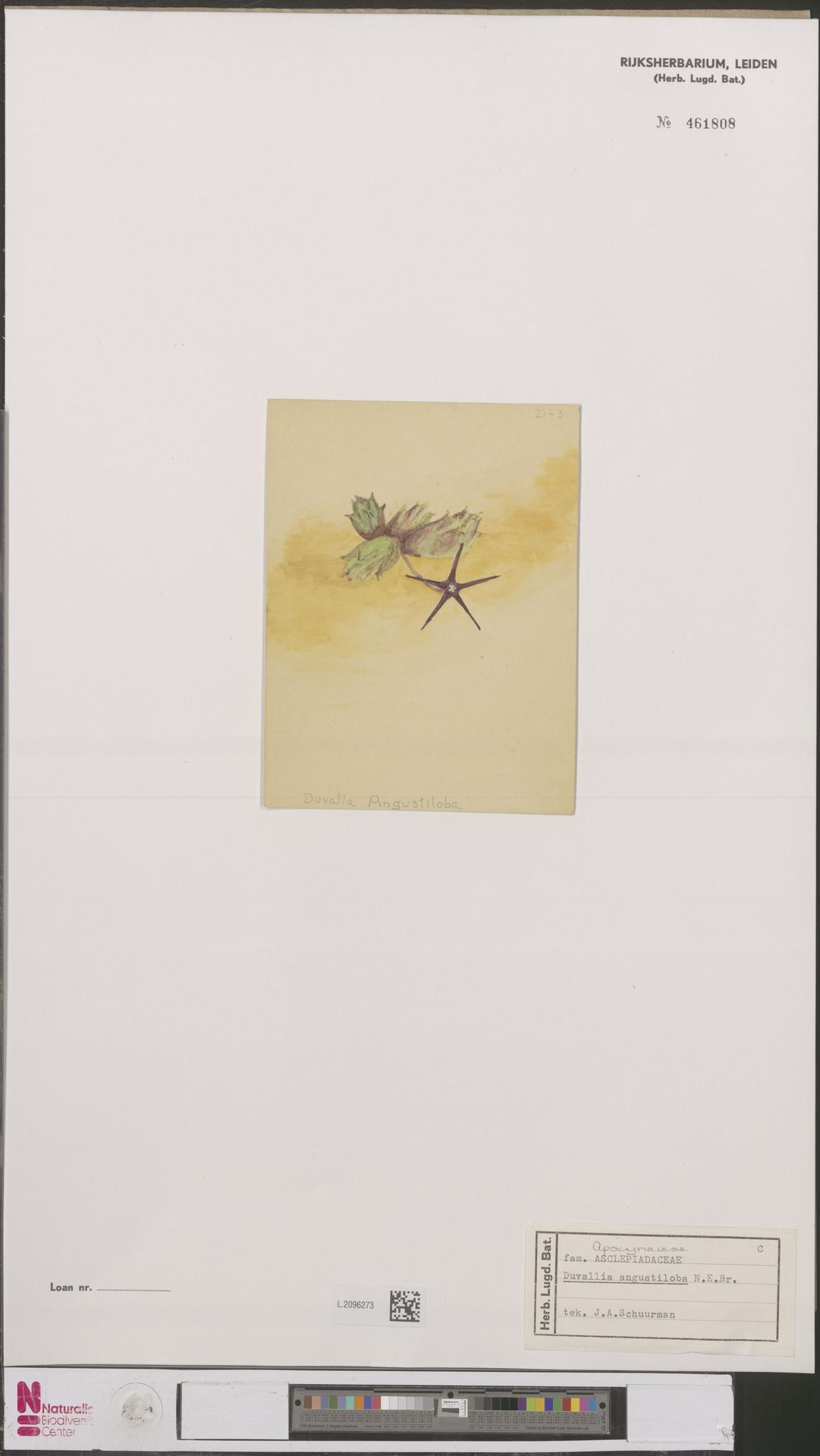 Duvalia angustiloba N. E. Brown